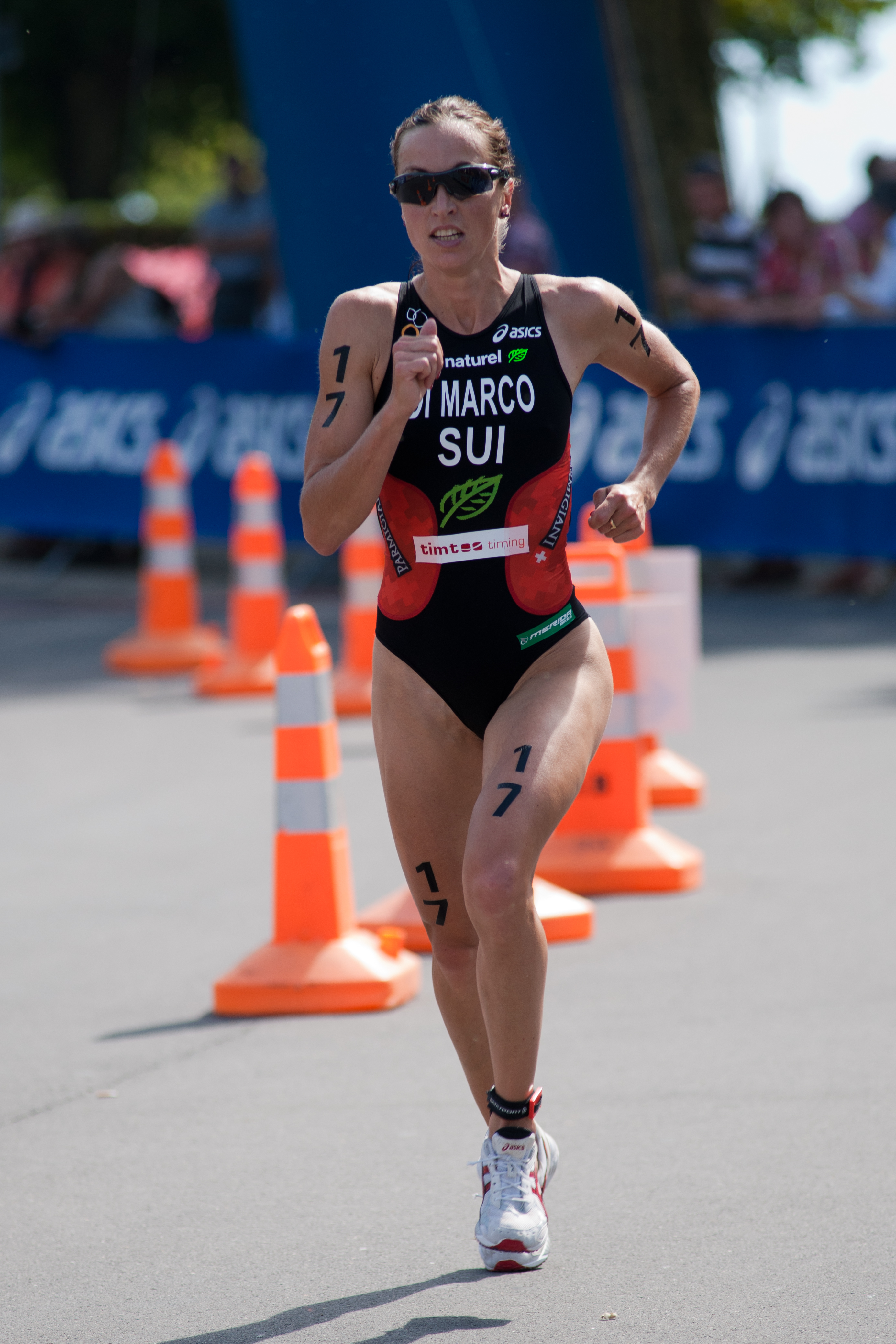 2010 ITU Sprint Distance Triathlon World Championships, Lausanne, Switzerland.